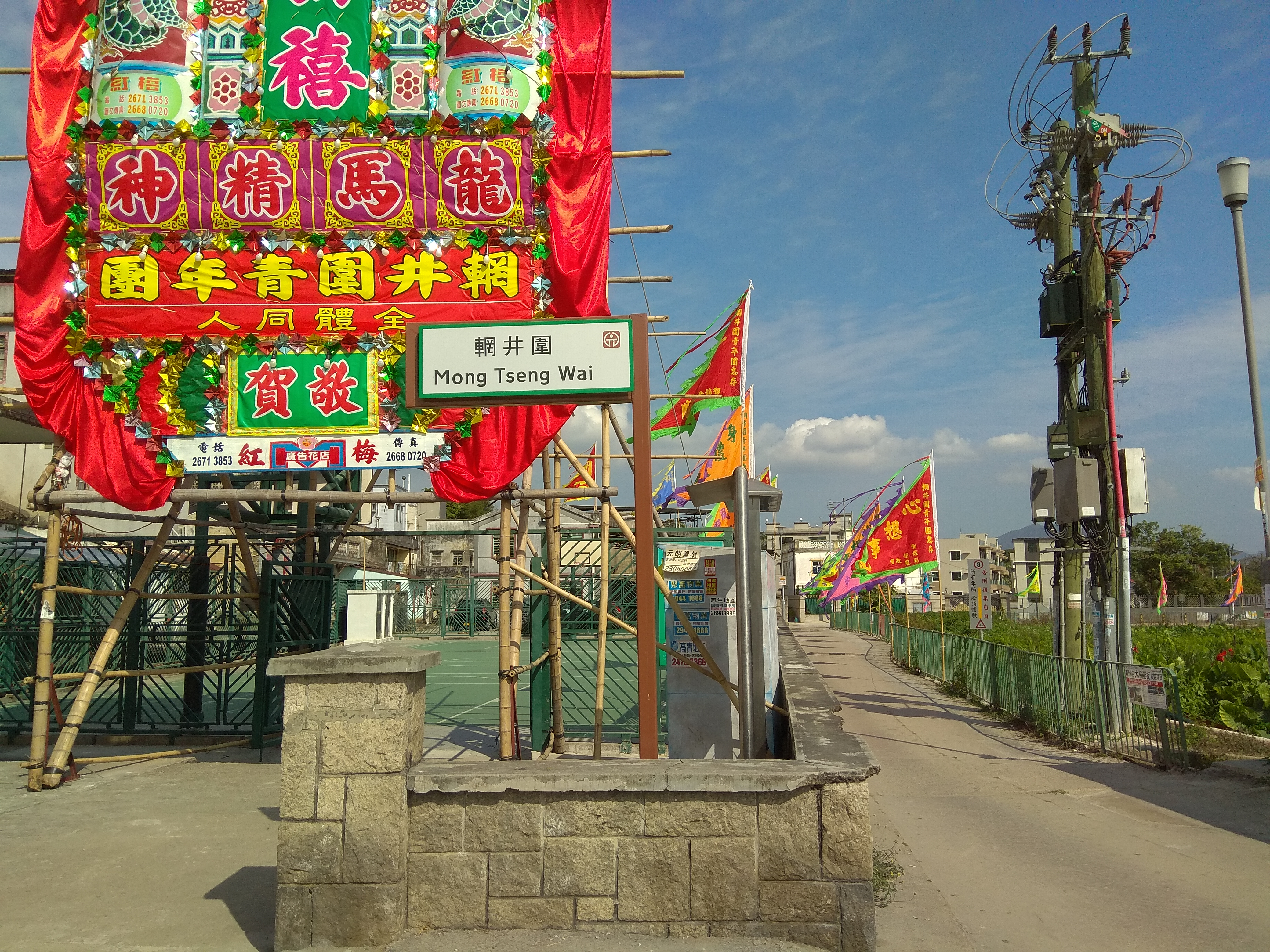 Mong Tseng Wai Basketball Court